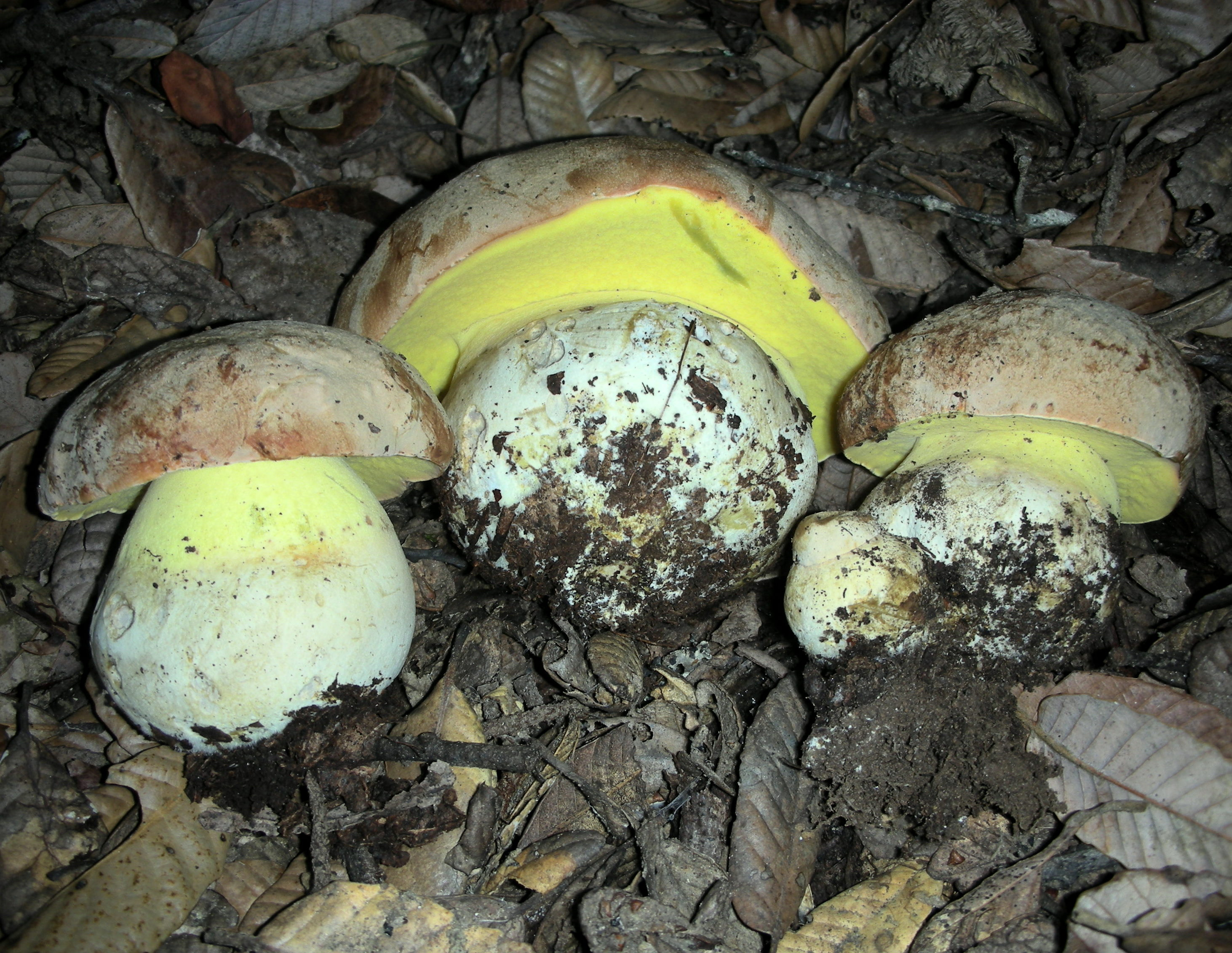 Fruit bodies of the bolete fungus Butyriboletus persolidus D.Arora & J.L.Frank. Photographed in Tomales Bay State Park, Marin Co., California, USA.